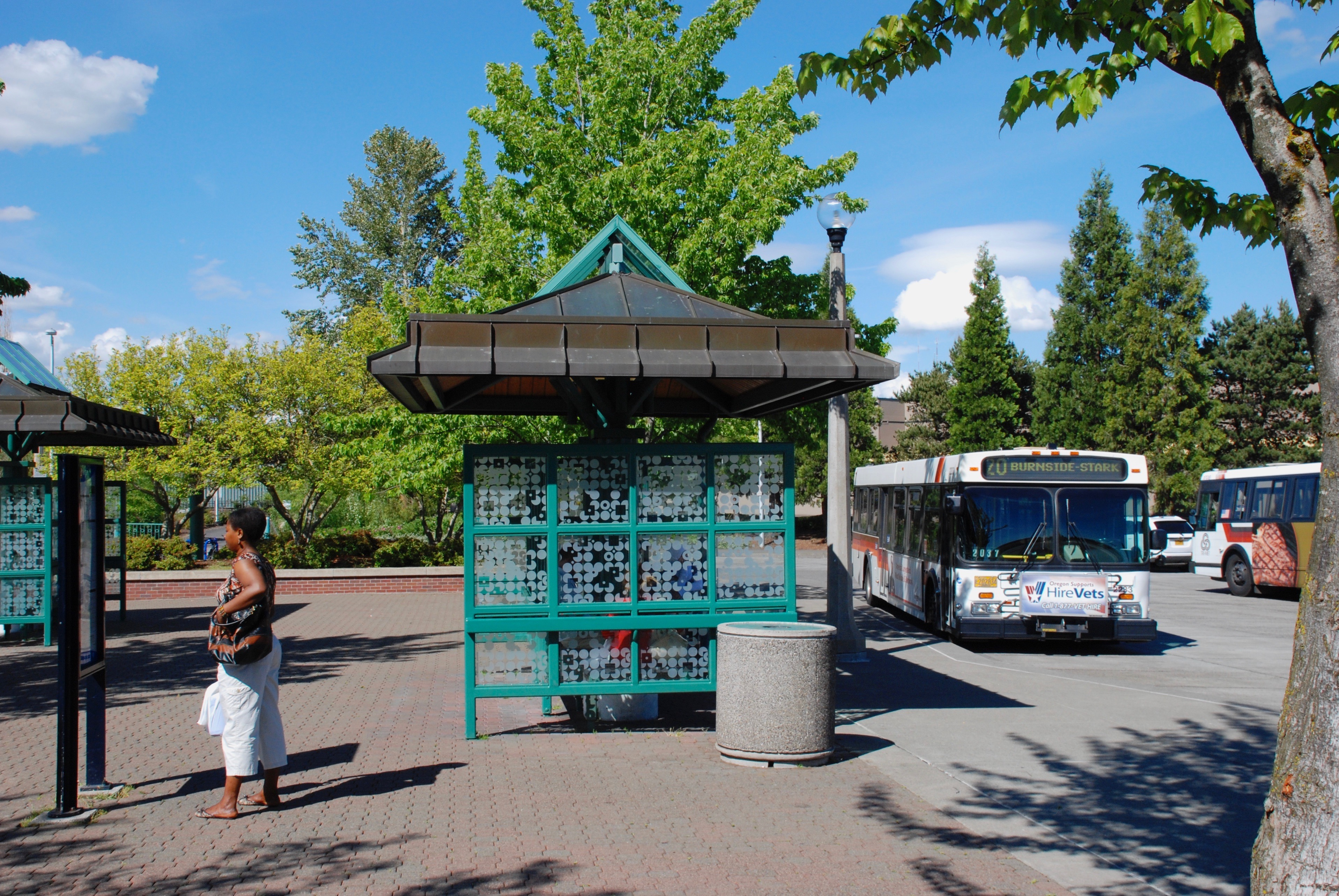 The northeast end of the central island at Beaverton Transit Center (the portion that opened in 1988, for buses only), with a side view of a shelter for the line 20 bus stop and a bus laying over on that route. At left, a woman is reading a schedule display.